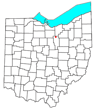 Locator map of the unincorporated community of Nova in Ashland County, Ohio, United States.